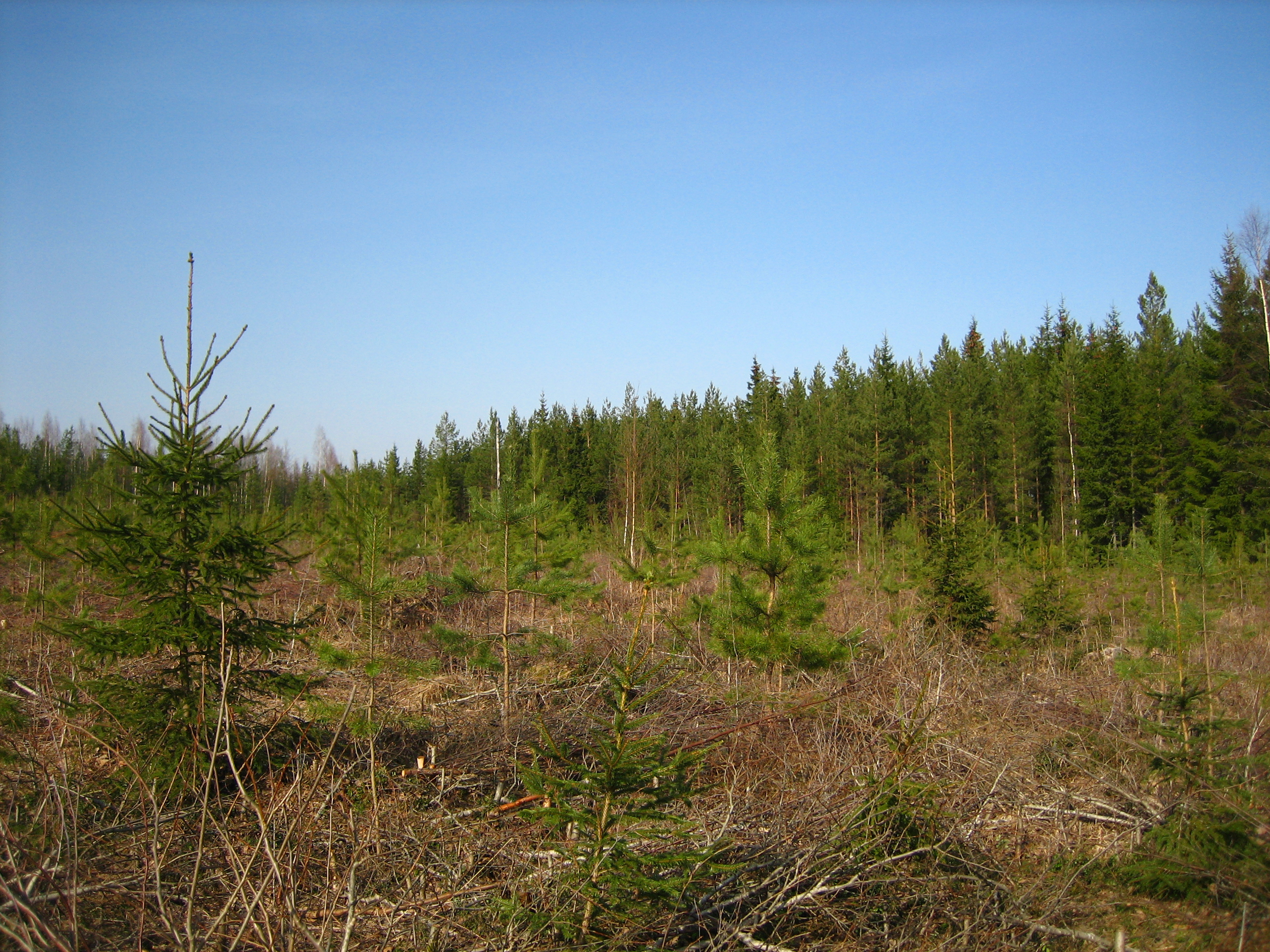 Roughly five-year-old pine-spruce (Pinus sylvestris, Picea abies) planting in Western Finland